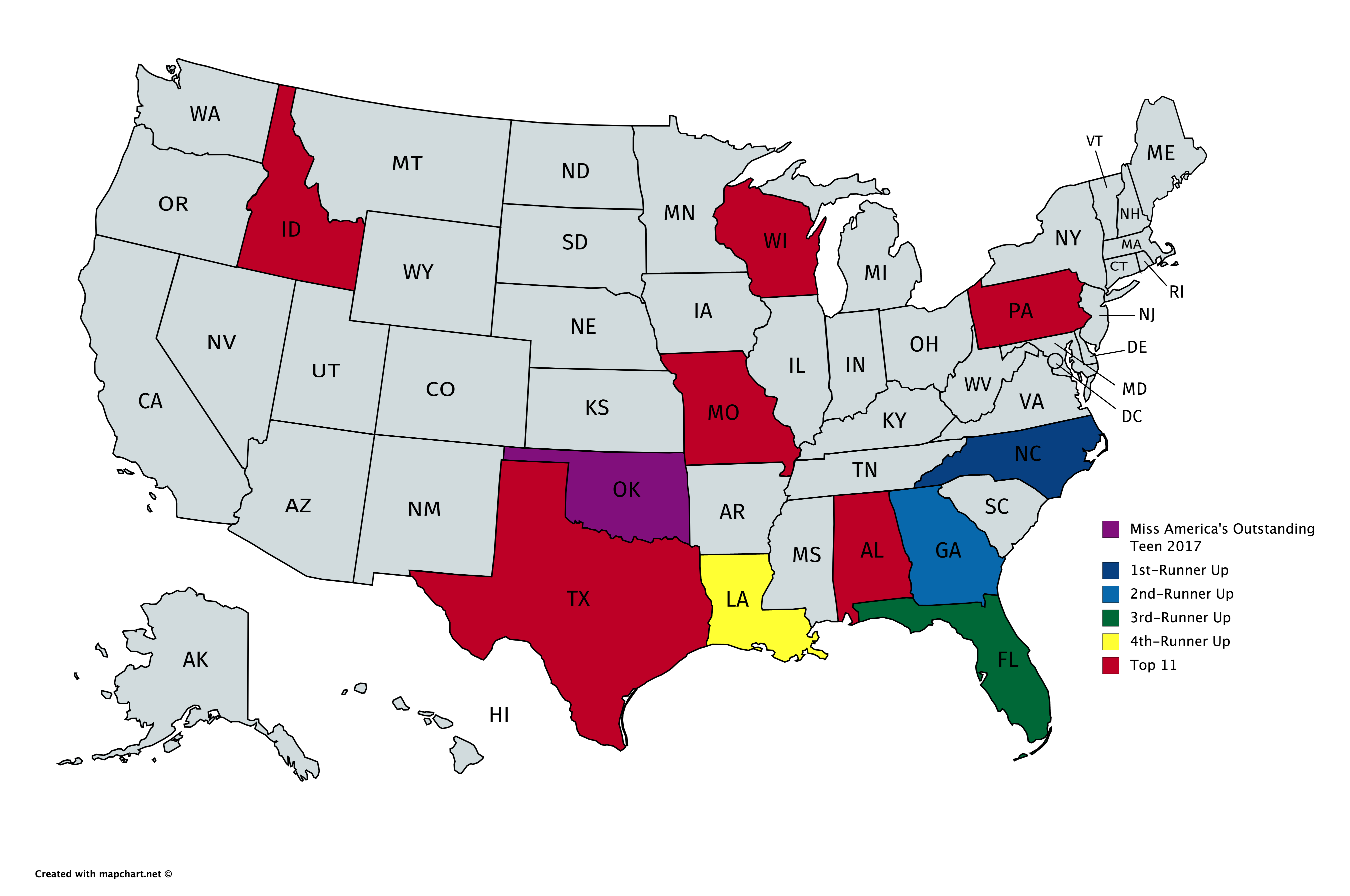 Placements of Miss America's Outstanding Teen 2017 on a map